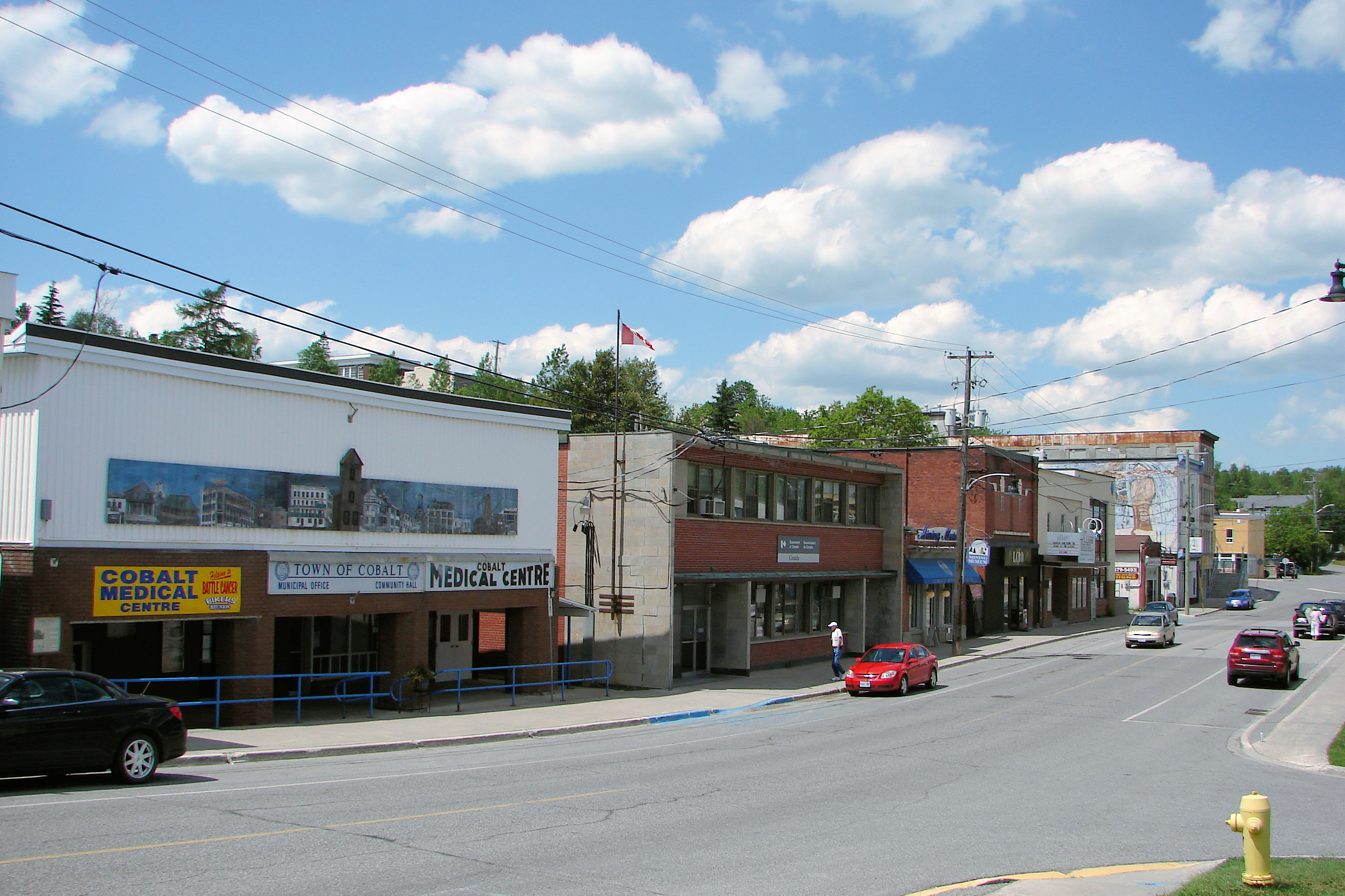 Main street in Cobalt, Ontario, Canada